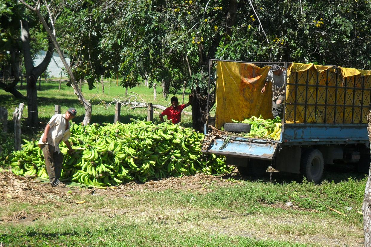 Bananas for market, Central America